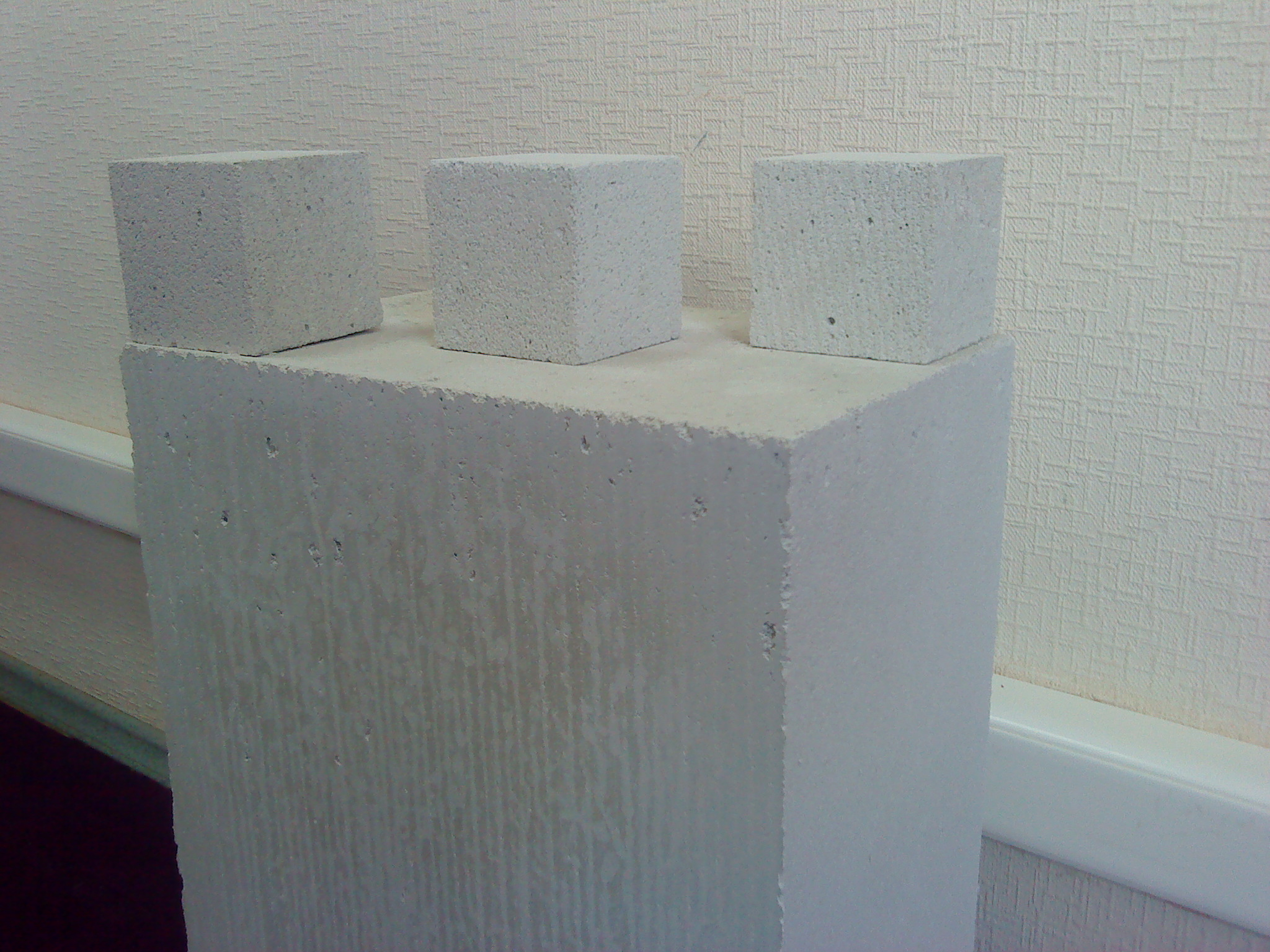 Tiles of autoclaved aerated concrete